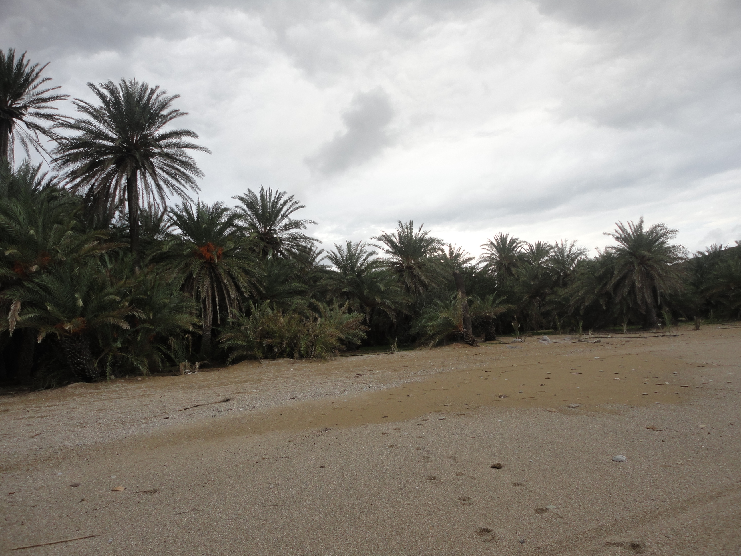 Palmeral de Vai